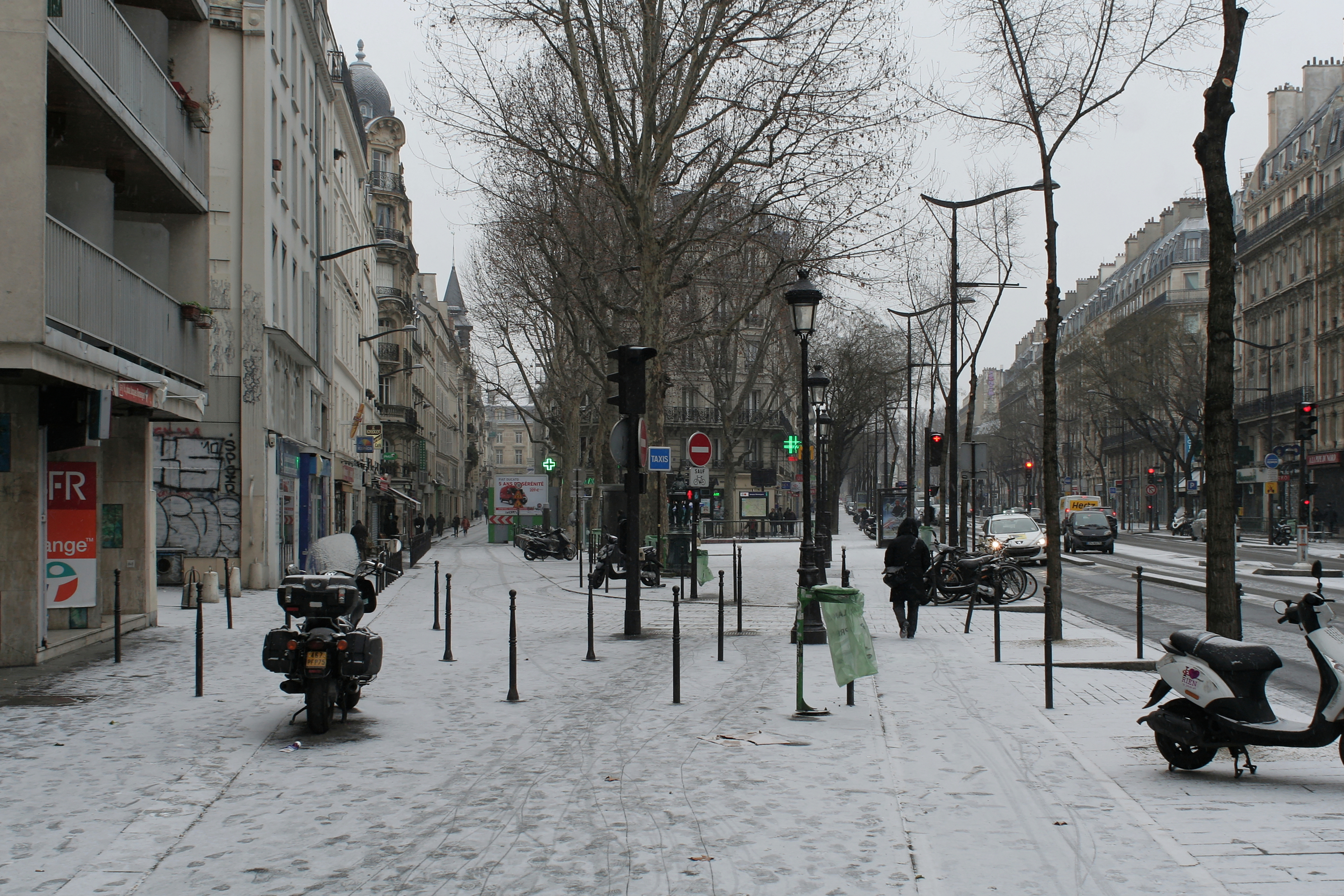 Place Jacques-Bonsergent (Paris) under the snow.